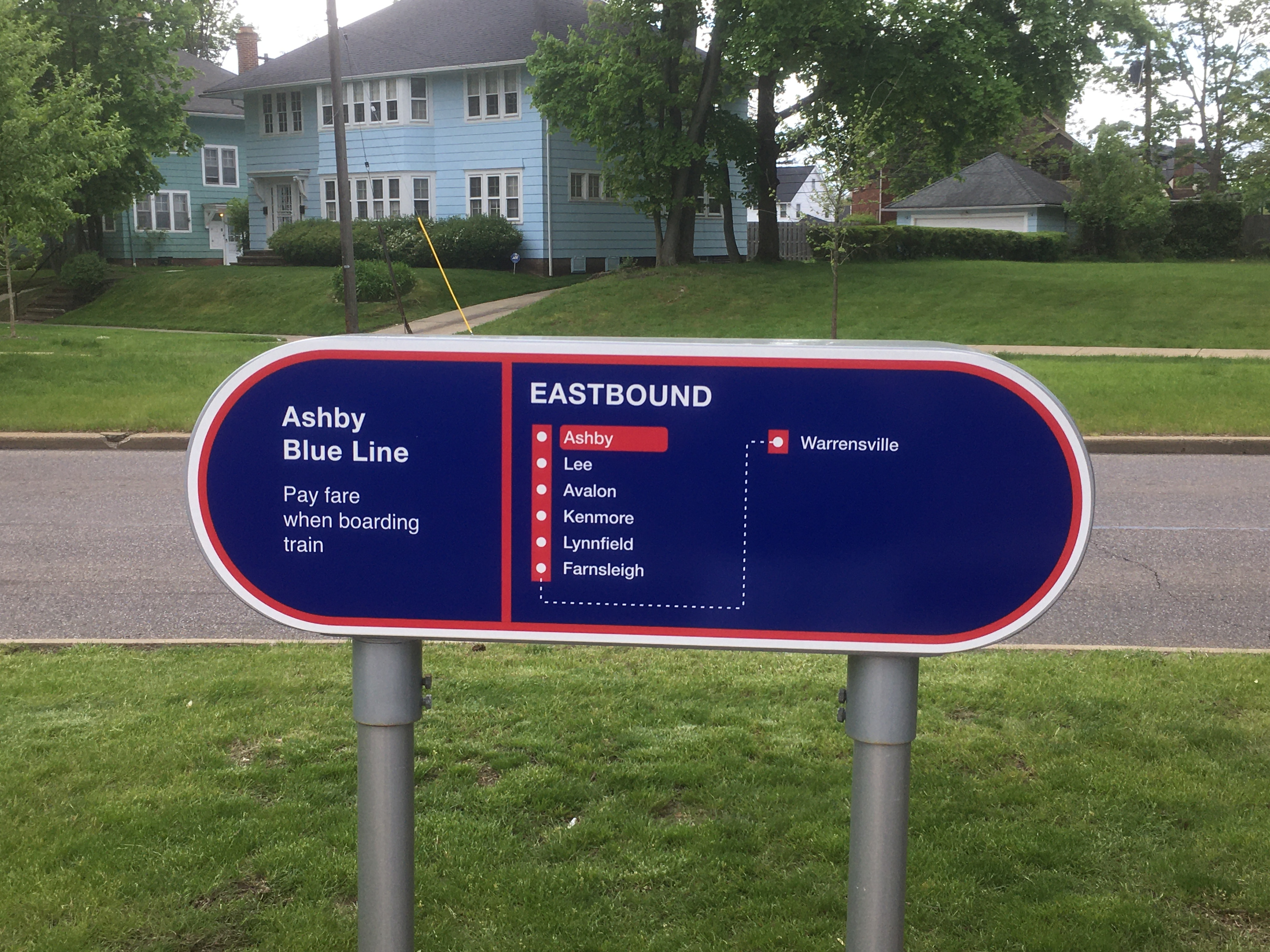 Ashby, 2020 sign